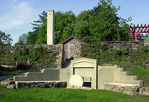 Biblical garden